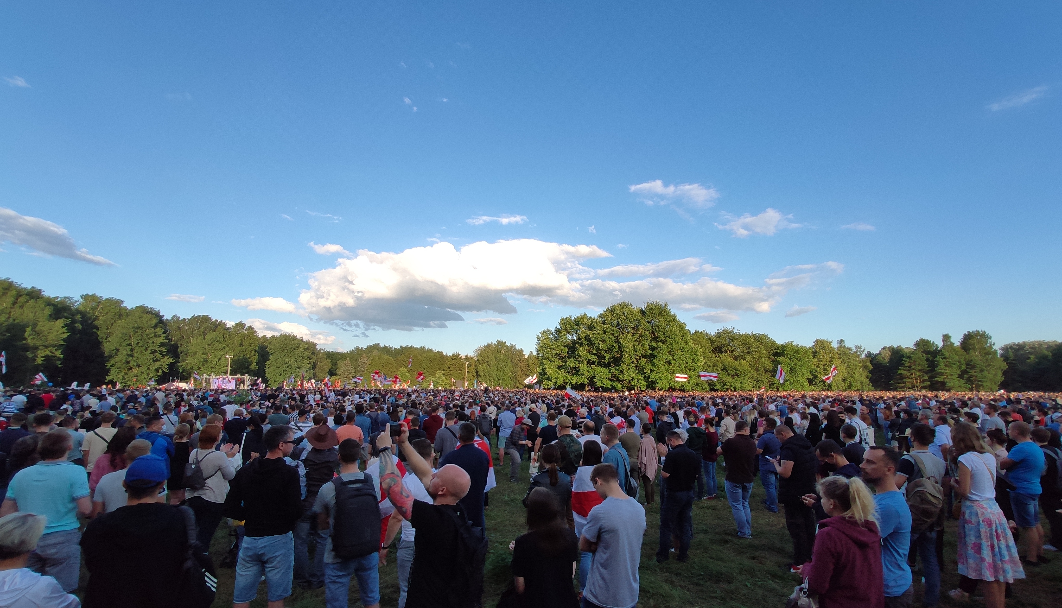 Rally in support of Sviatlana Tsikhanoŭskaya and the joint campaign headquarters. 30 July 2020, Minsk, Belarus